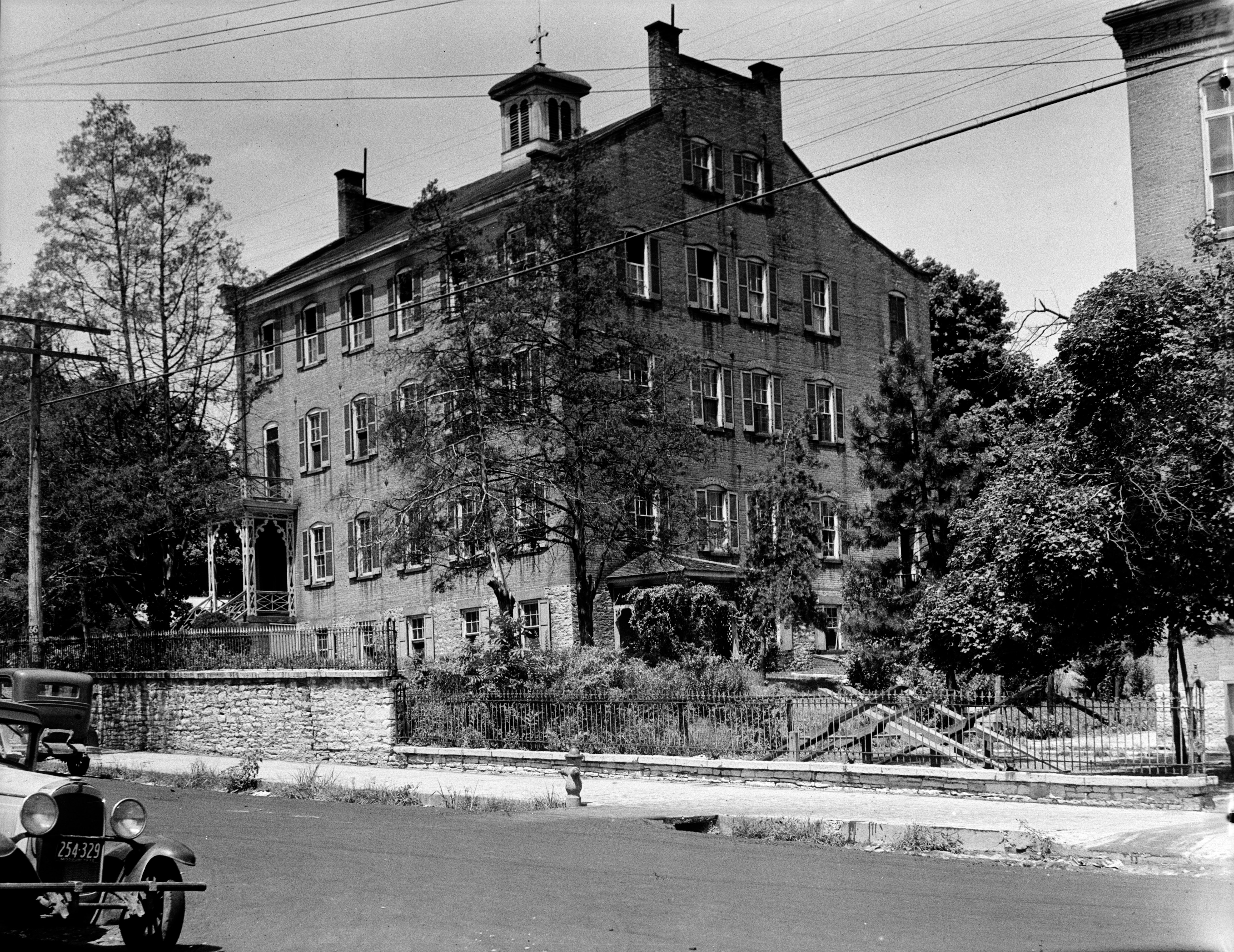 This photograph is of the Covent of the Sisters of St. Joseph in Dubourg Place in Ste. Geneviève, Missouri. It was built in 1867.